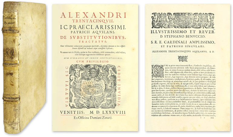 Alexander Trentacinquius - De substitutionibus, tractatus, hanc ultimarum volontatum præcipuam materiam..., Venice, Damiano Zenaro, 1588. Title page and first page of dedication to cardinal Stefano Bonucci.